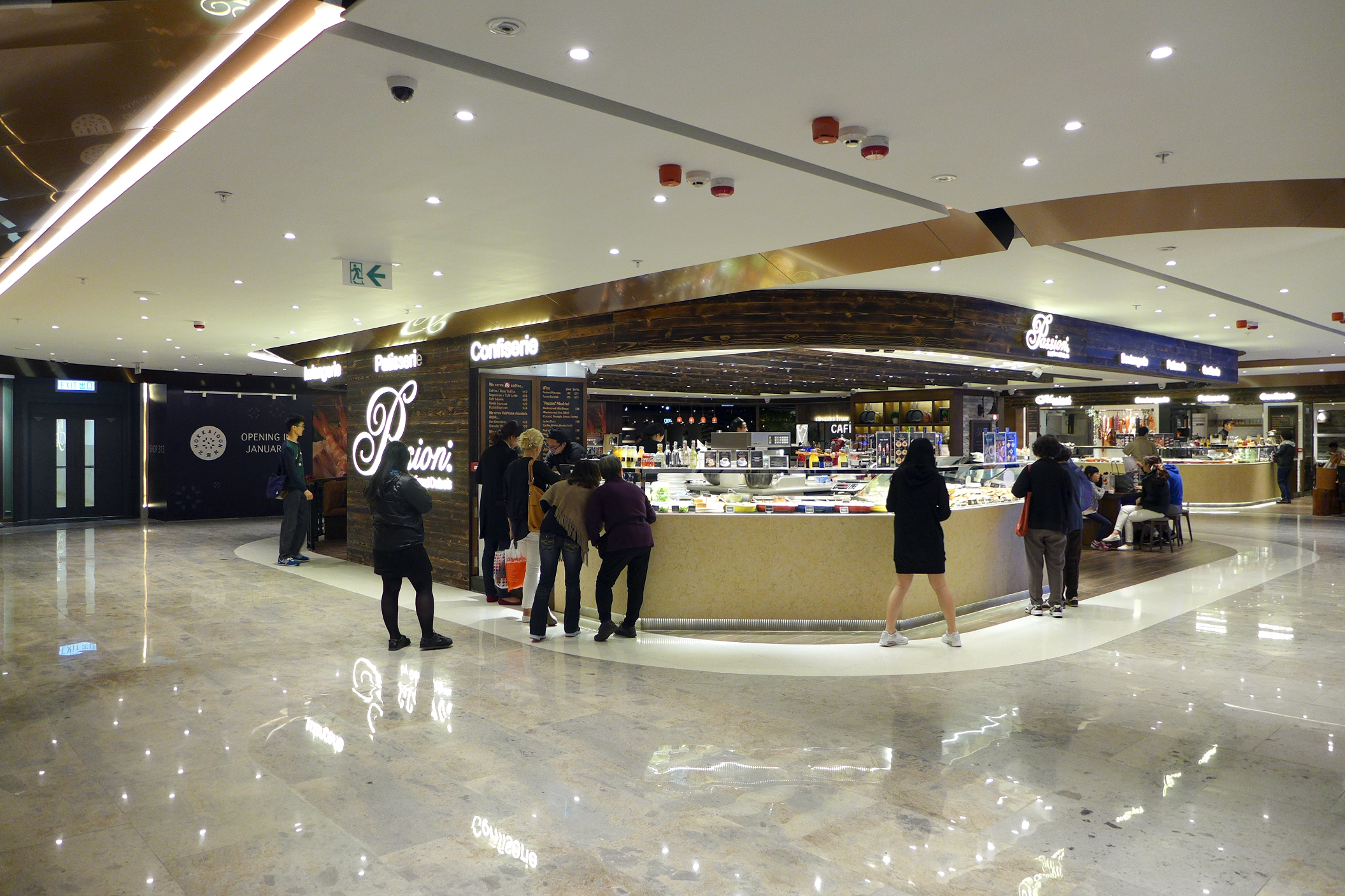 Cityplaza Phase 1 Level 3New F&B Restaurant